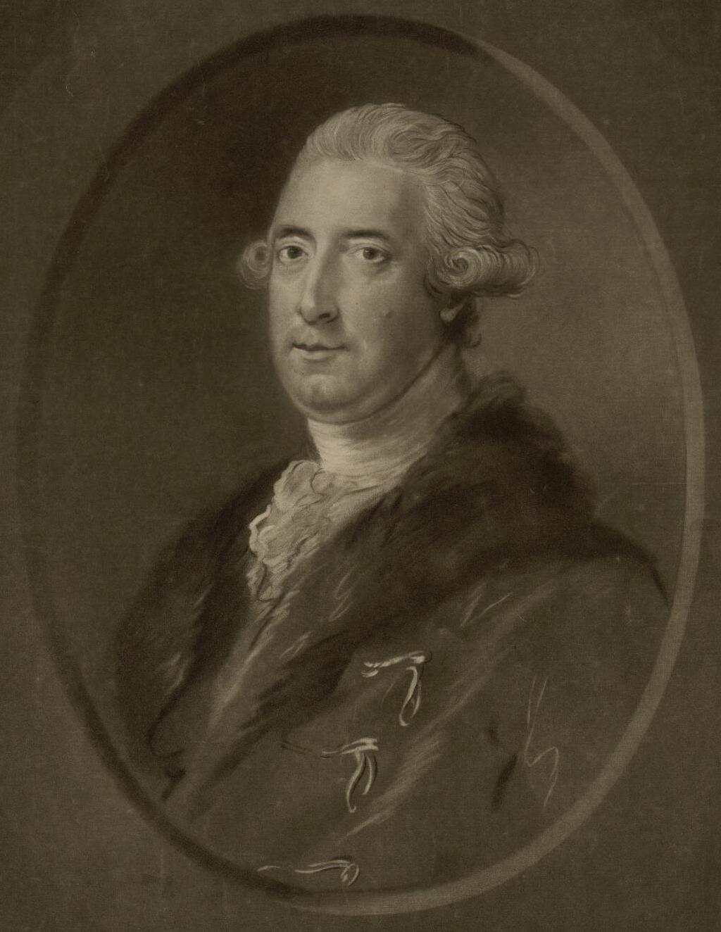 A portrait from the Welsh Portrait Collection at the National Library of Wales. Depicted person: George Venables-Vernon, 2nd Baron Vernon – British politician and Baron